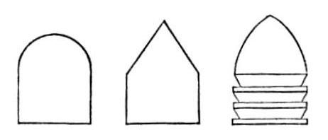 Early_cylindrical_bullets